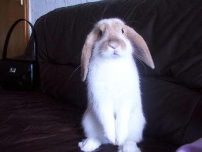 Bernd the bunny